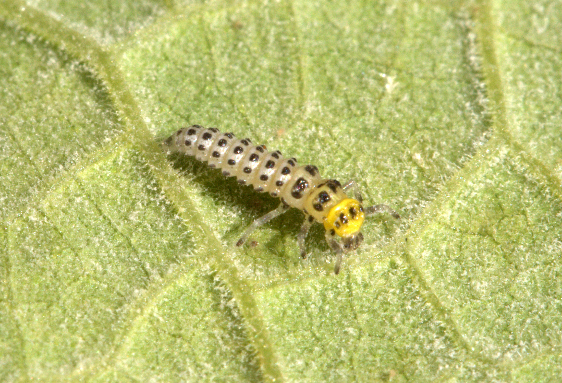 Illeis galbula in Sydney on a pumpkin leaf